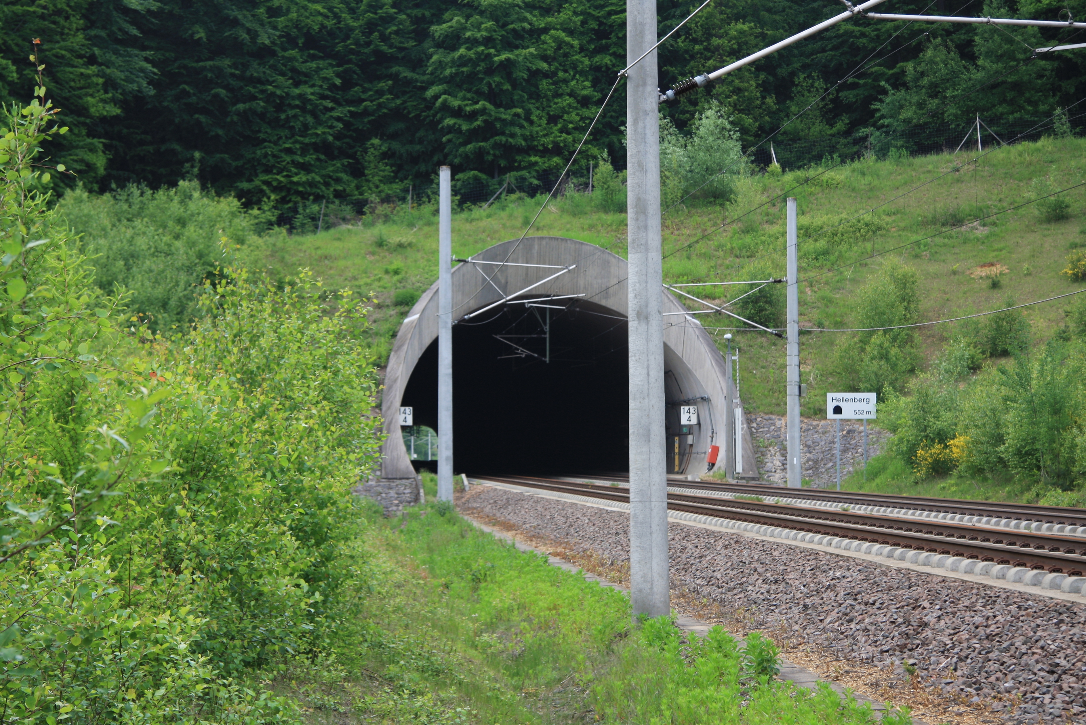 The southern gate of the Hellenberg-tunnel of the Cologne–Frankfurt high-speed rail line